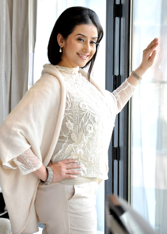 Manisha Koirala at 'Bhoot Returns' promotions in Delhi